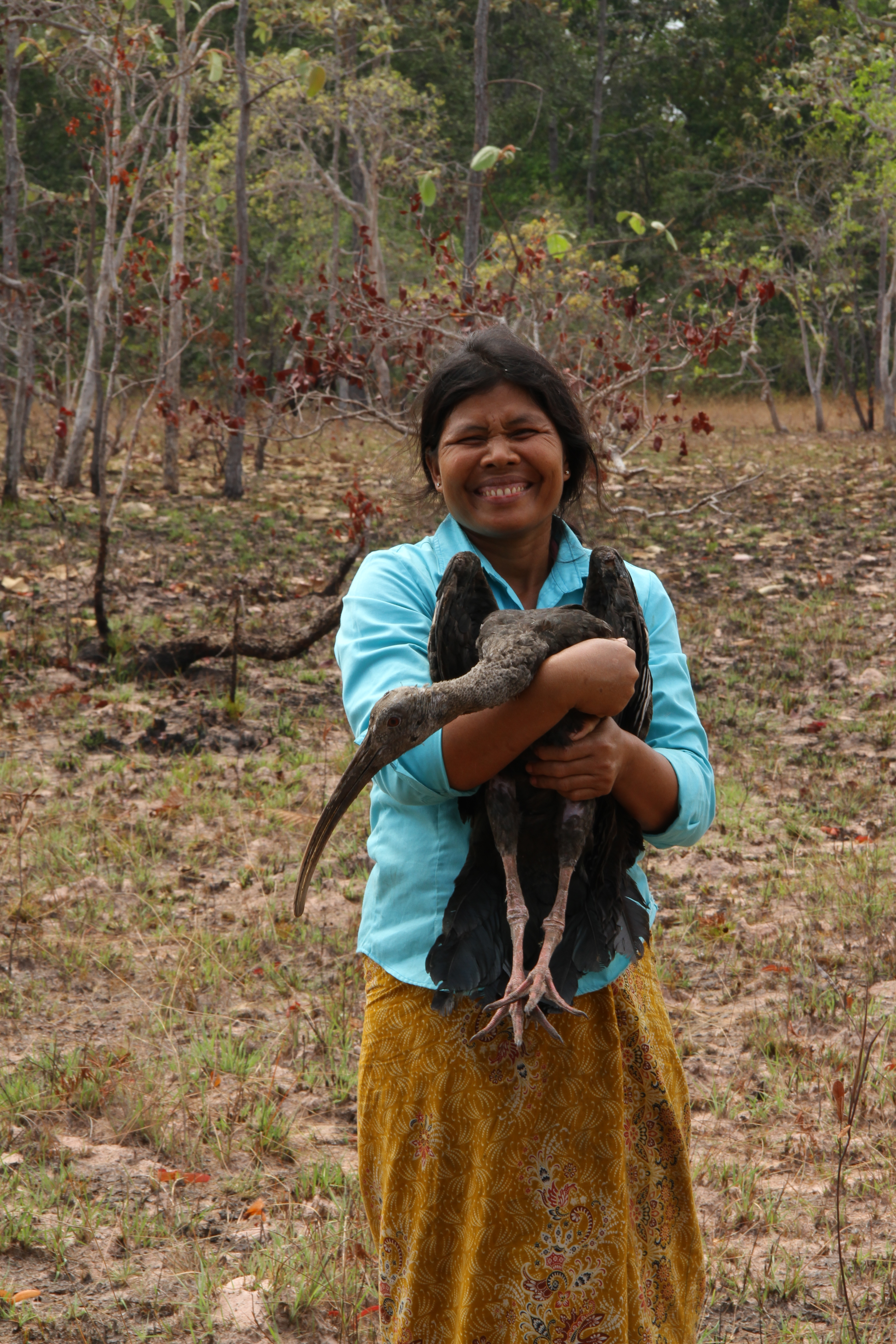 This woman holding a giant ibis shows how “the community has become a partner in nature conservation and has begun to actively protect the ibis species,” According to a case study of the Tmatboey Community-based Ecotourism Project in Cambodia. The ibis fell from its nest and the woman pictured nursed it back to health. She planned to release it at the local pond here in Preah Vihear, where giant ibis congregate daily. The rare and critically endangered giant ibis is the national bird of Cambodia with only an estimated 100 pairs remaining. Photo credit: Luke Groskin, Wildlife Conservation Society